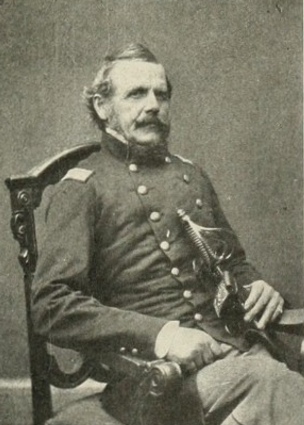 Union Brigadier General George W. Taylor